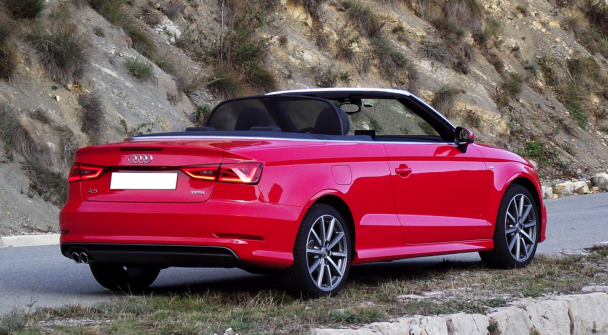 Audi A3 Cabriolet 8V 1.8 TFSI S line Misanorot-Perleffekt rear view